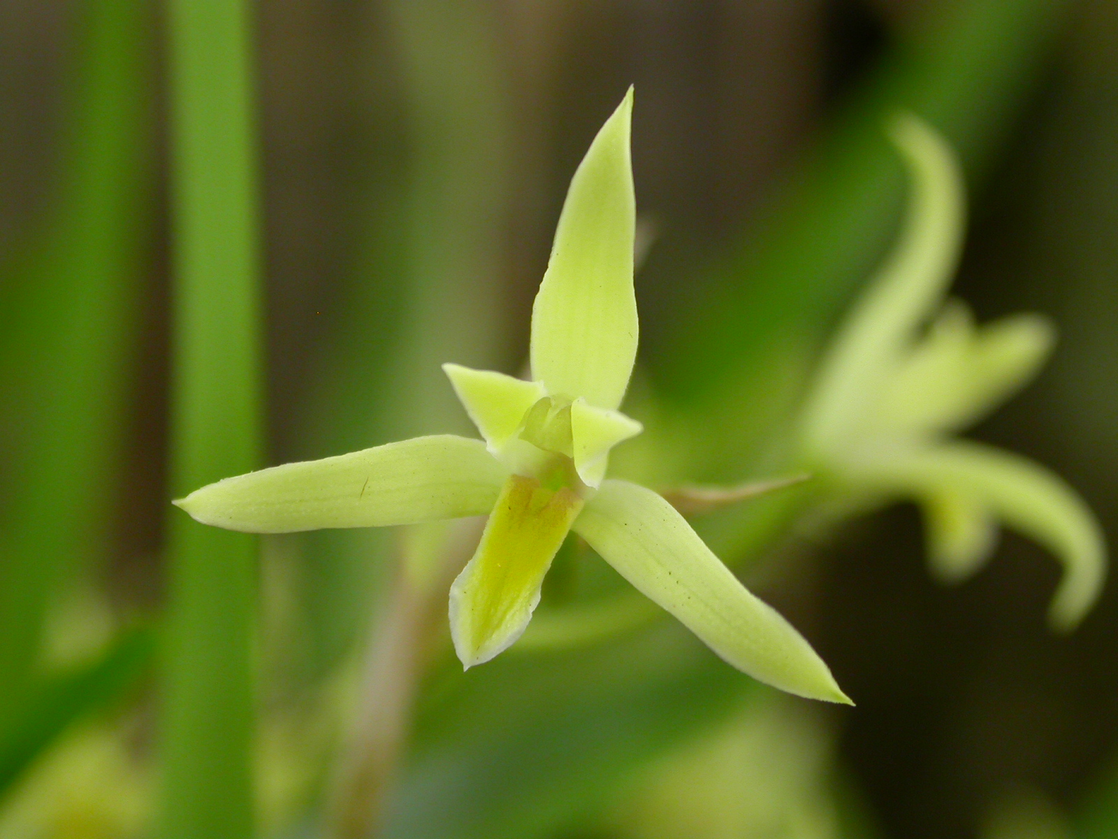 Nidema boothii